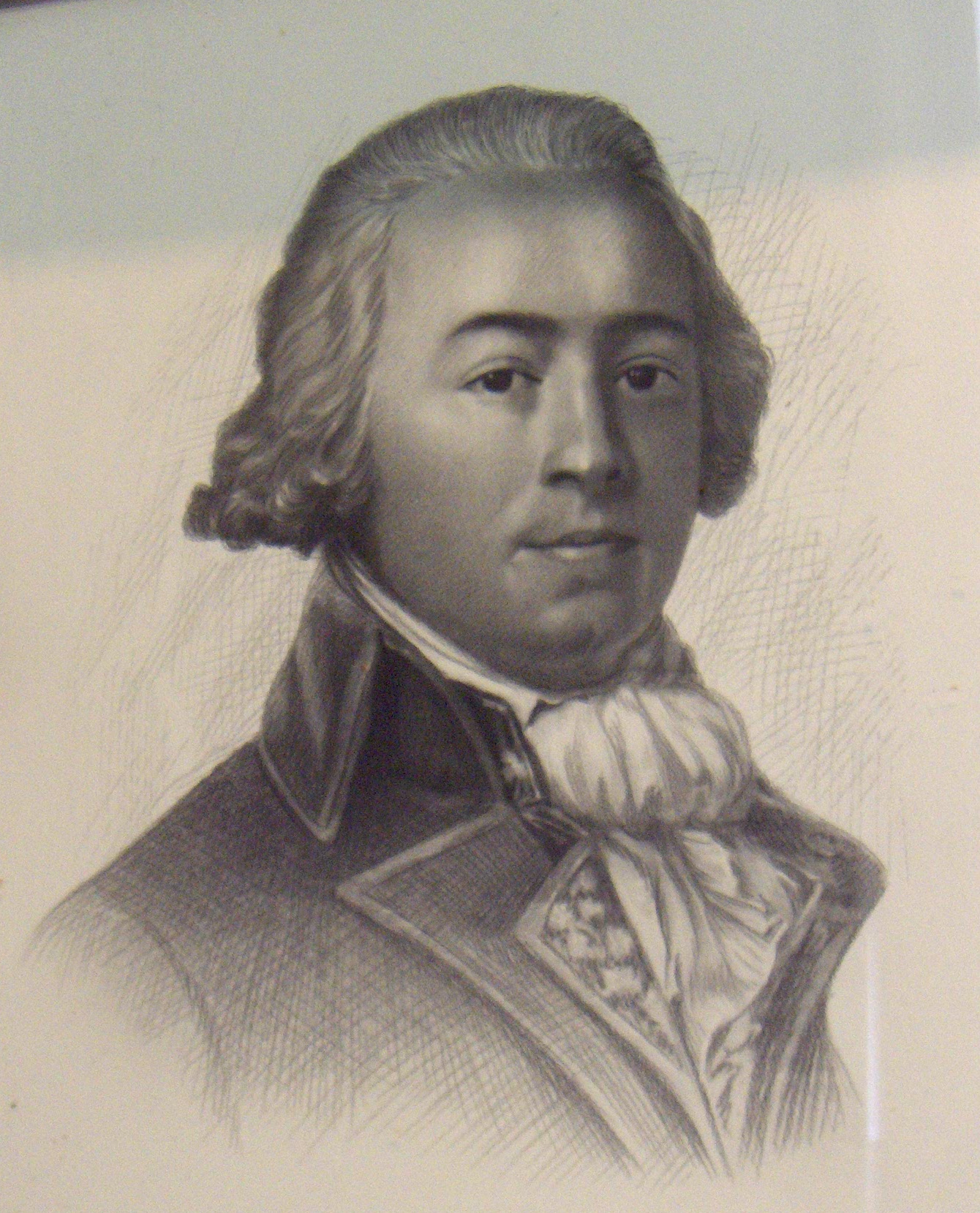 Charles Aimé Emmanuel van der Meere van Cruyshautem (1766-1837), member of the States General of the United Kingdom of the Netherlands from 1824 till 1830